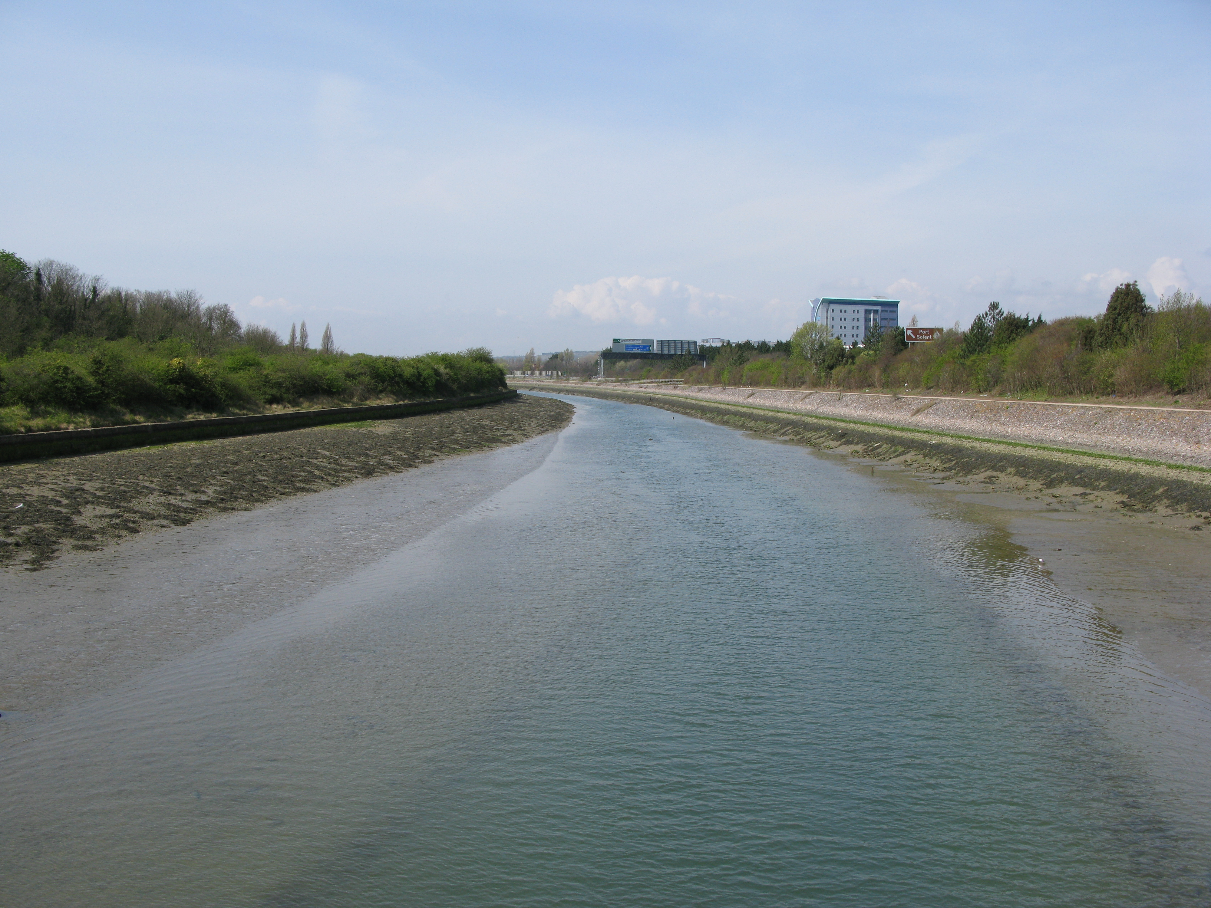 Photo of Ports Creek with the tide mostly out